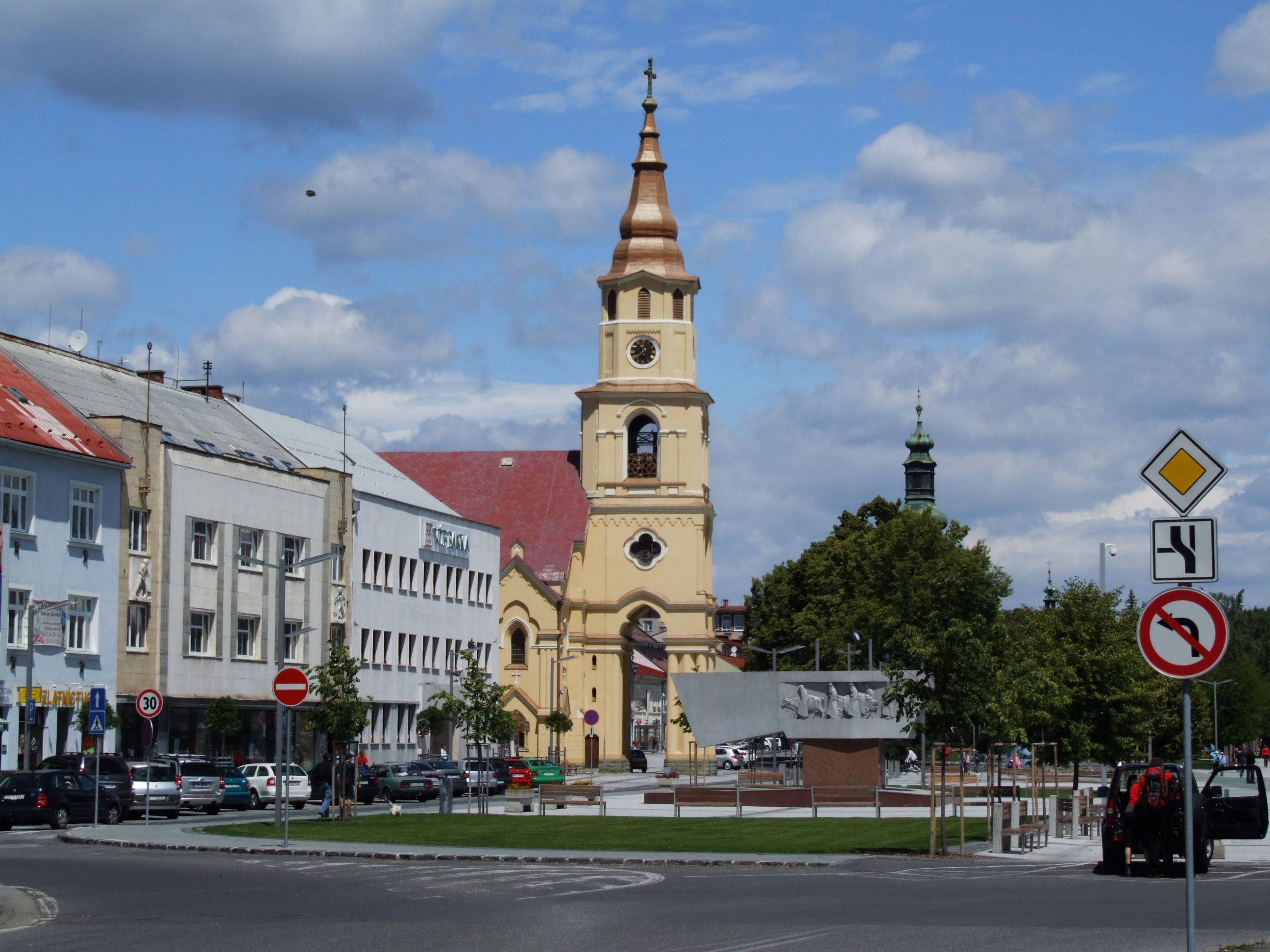 Zvolen, Slovakia - Evangelical Church of the Holy Trinity